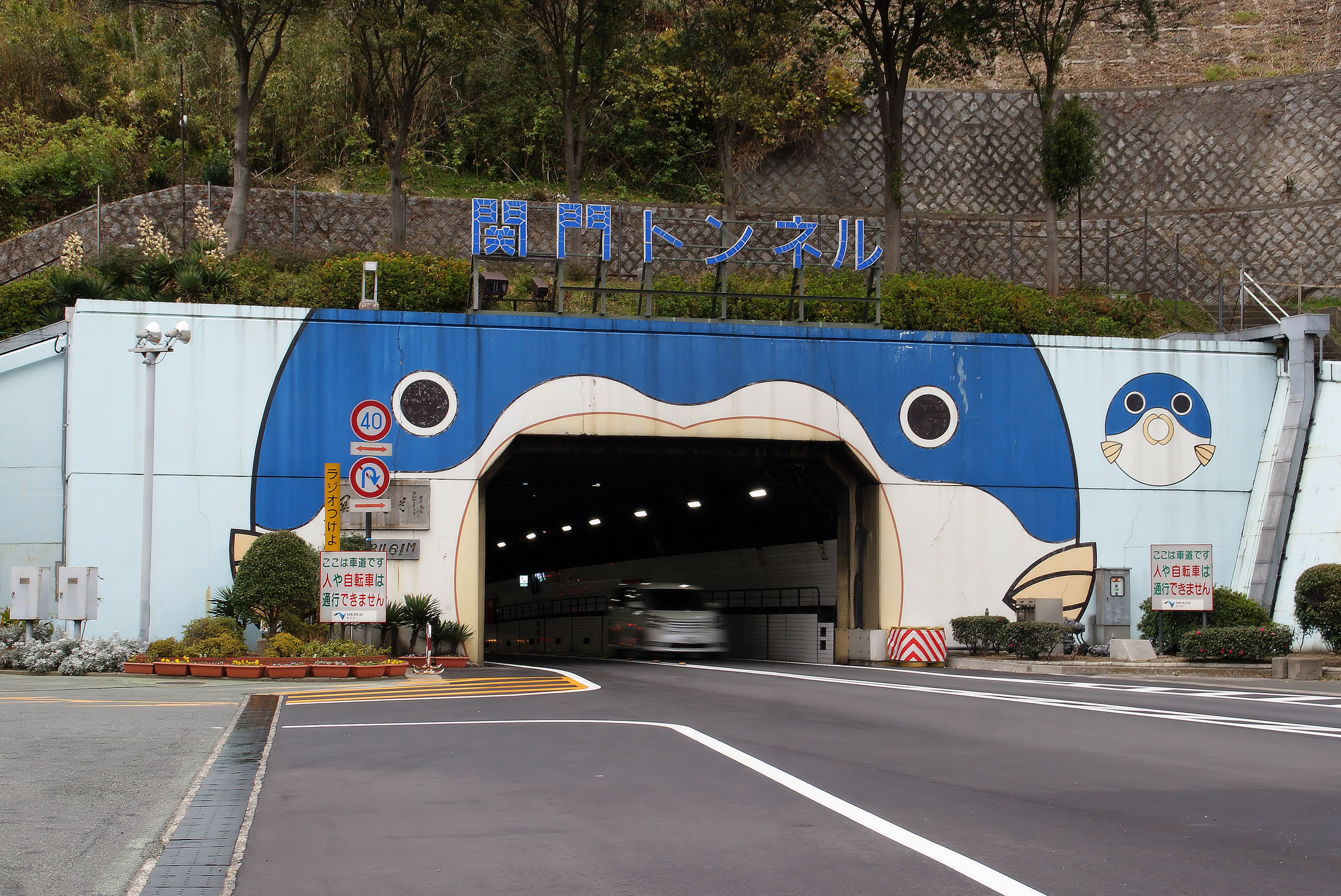 Kanmon Roadway Tunnel.(Moji Ward, Kitakyushu City, Fukuoka Prefecture, Japan)